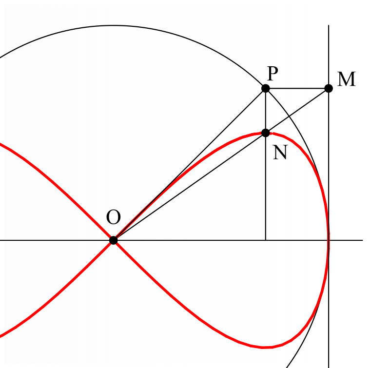 geometric construction of lemniscata